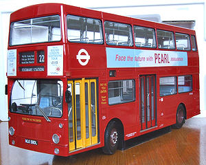 The 1/24th scale London Transport DMS